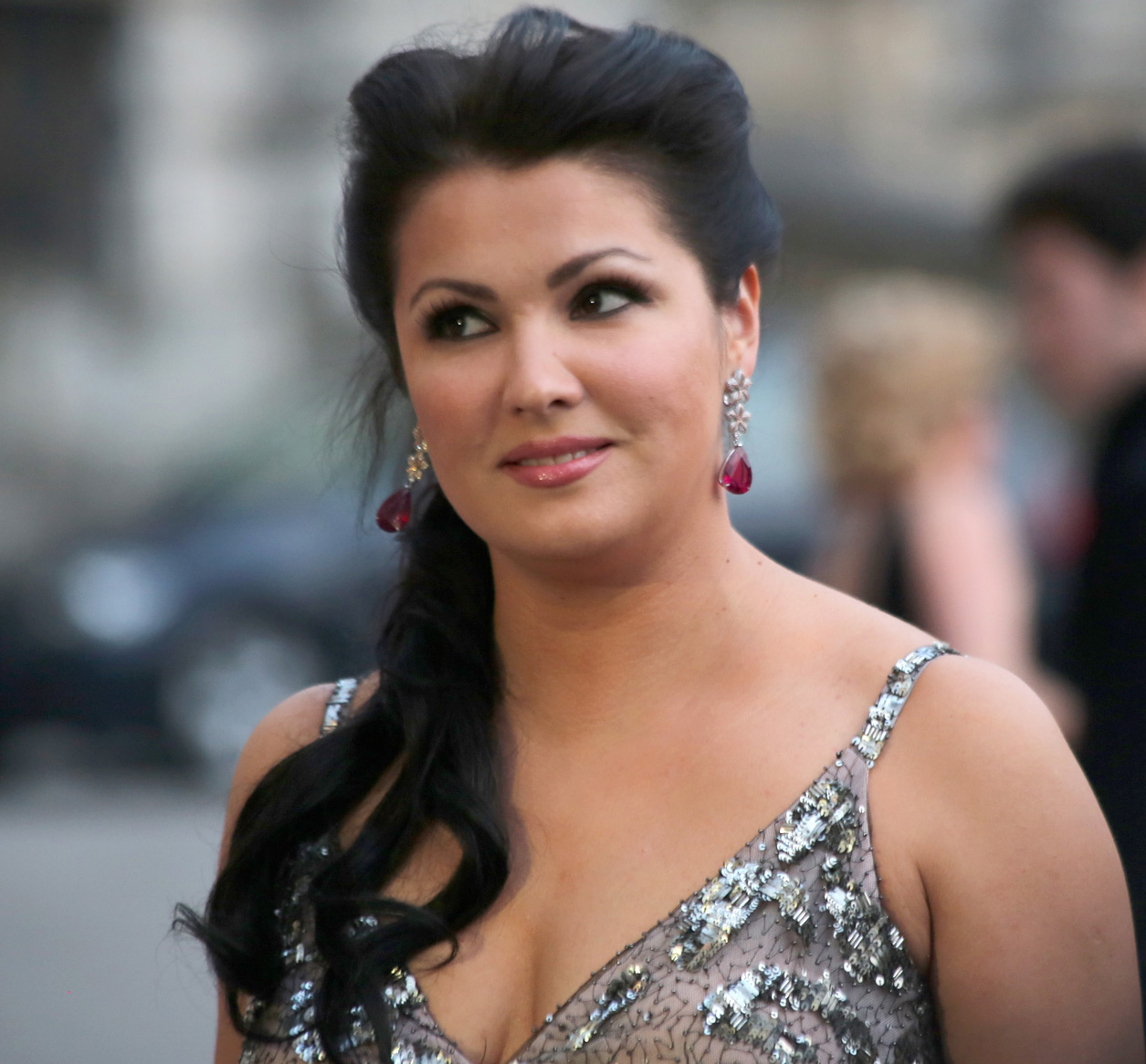 Anna Netrebko at the Romy film awards (Hofburg Imperial Palace in Vienna)